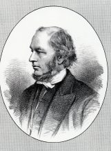 Rev William Henry Goold